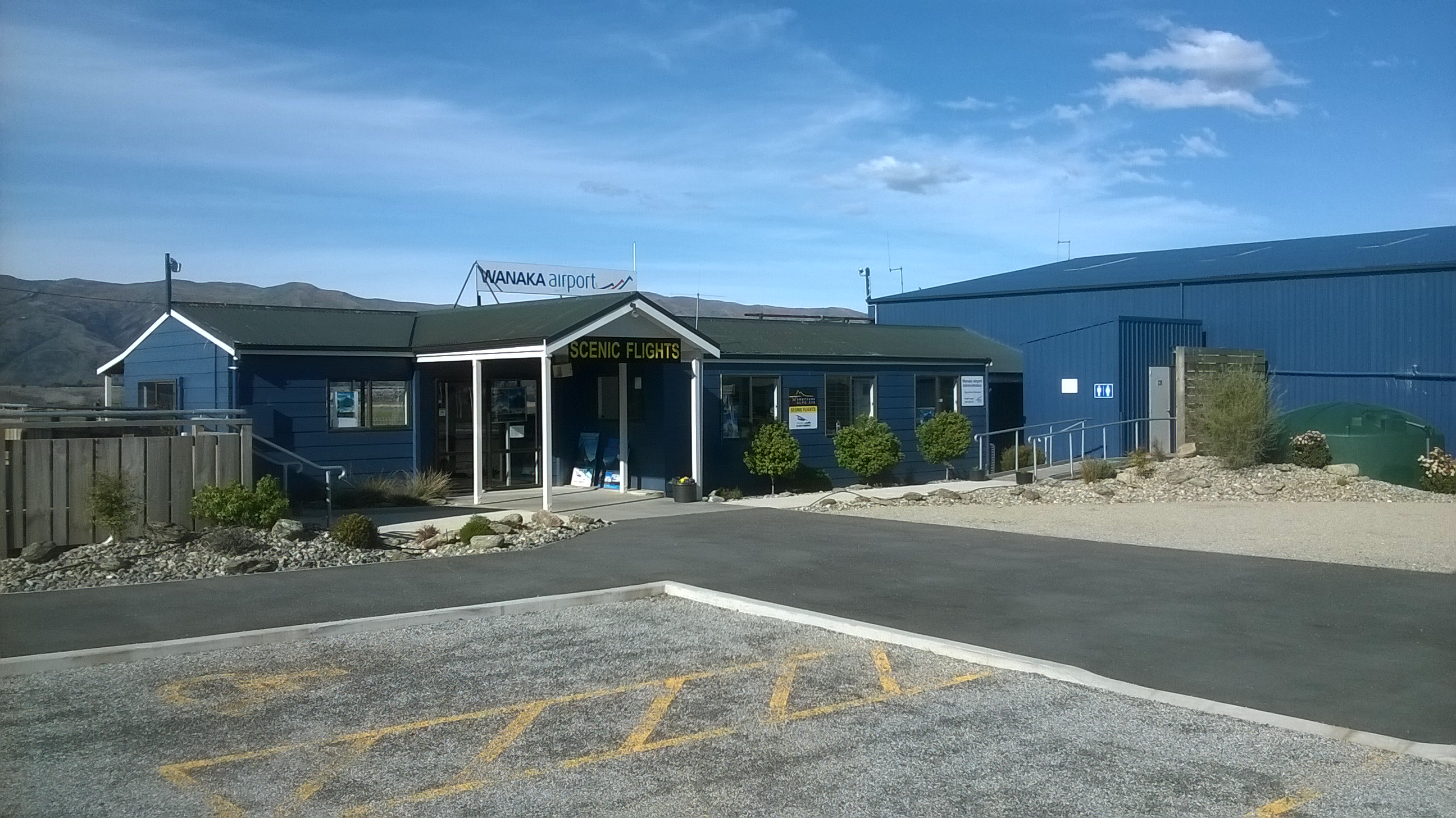 Wanaka Airport terminal